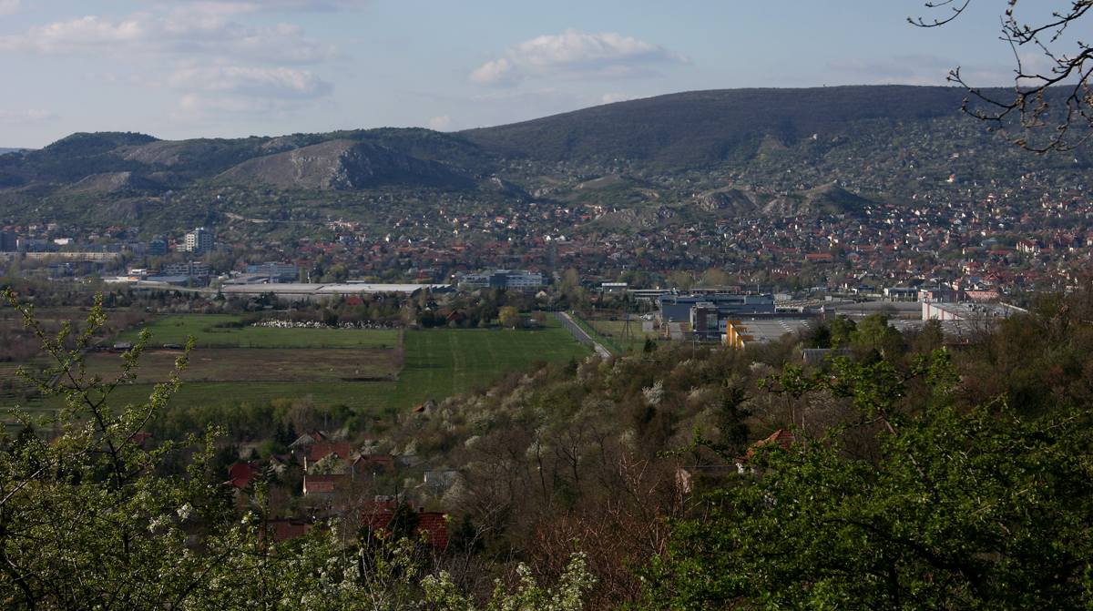 View of Budaörs Basin from Tétényi Plateau. Törökbélint-Pistály in the foreground, Budaörs and Buda Hills in the background